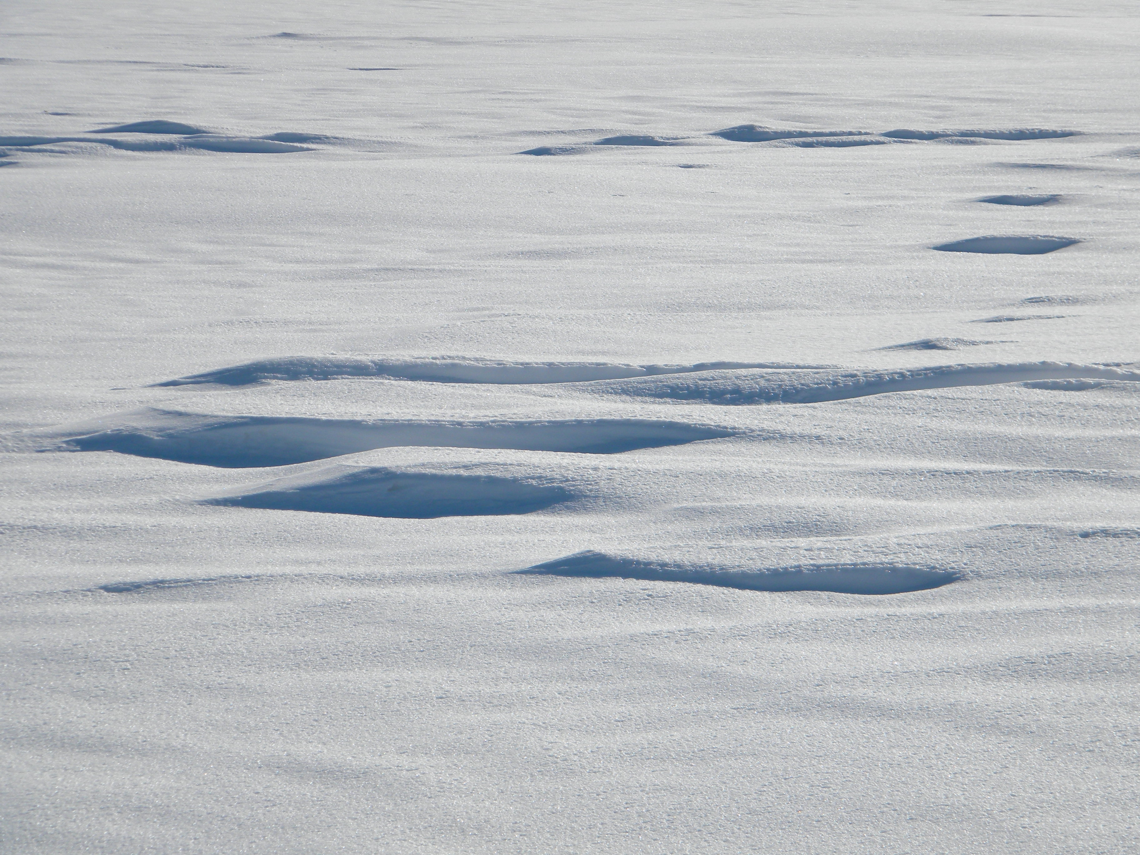 Plain ice and snow covering the Gulf of Finland in winter. Picture taken on sea in front of Helsinki, Finland.